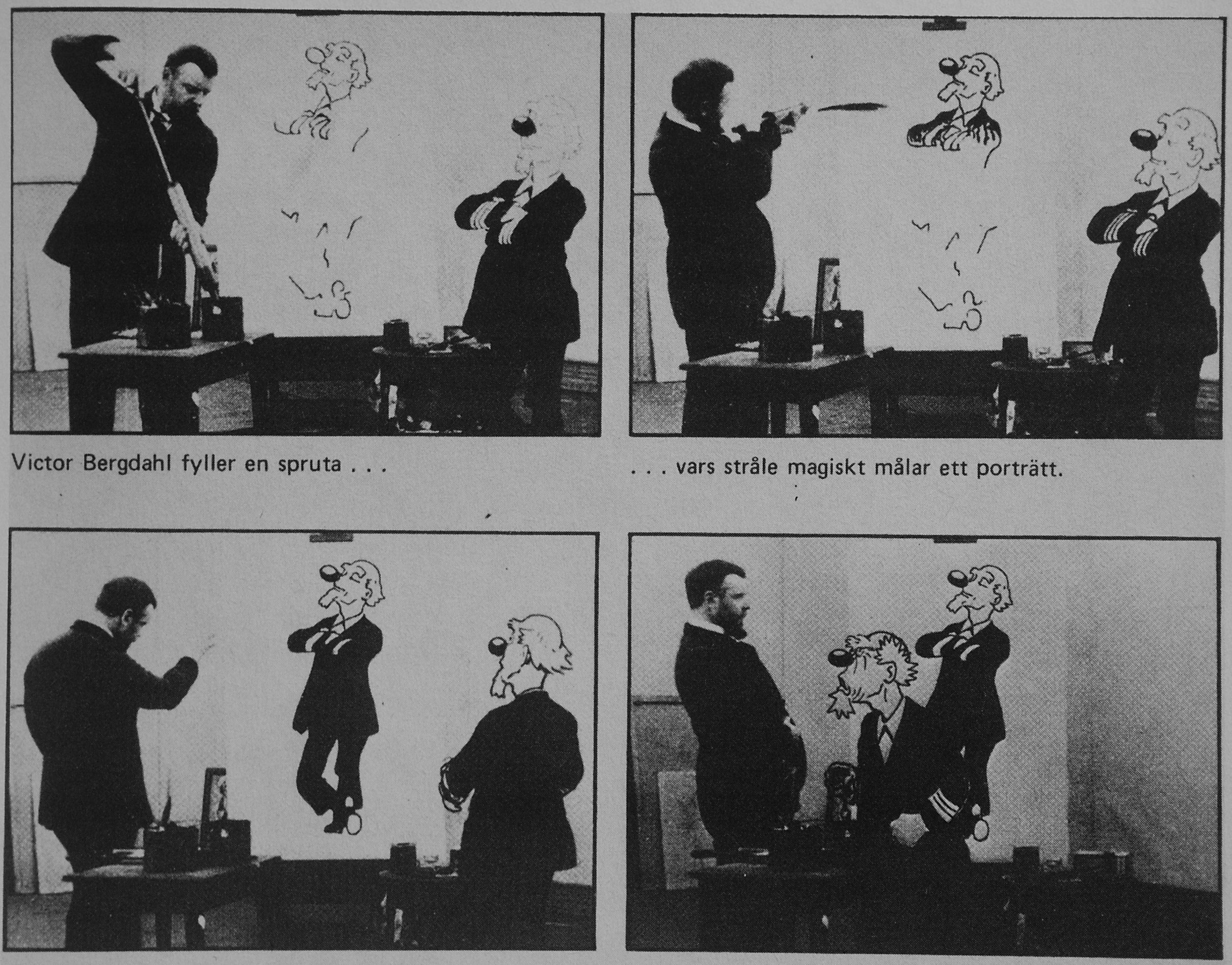 Still image from the movie "När Kapten Grogg skulle porträtteras" by Victor Bergdahl, 1917, featuring cartoon character Kapten Grogg and the author homself. Author died 1939.